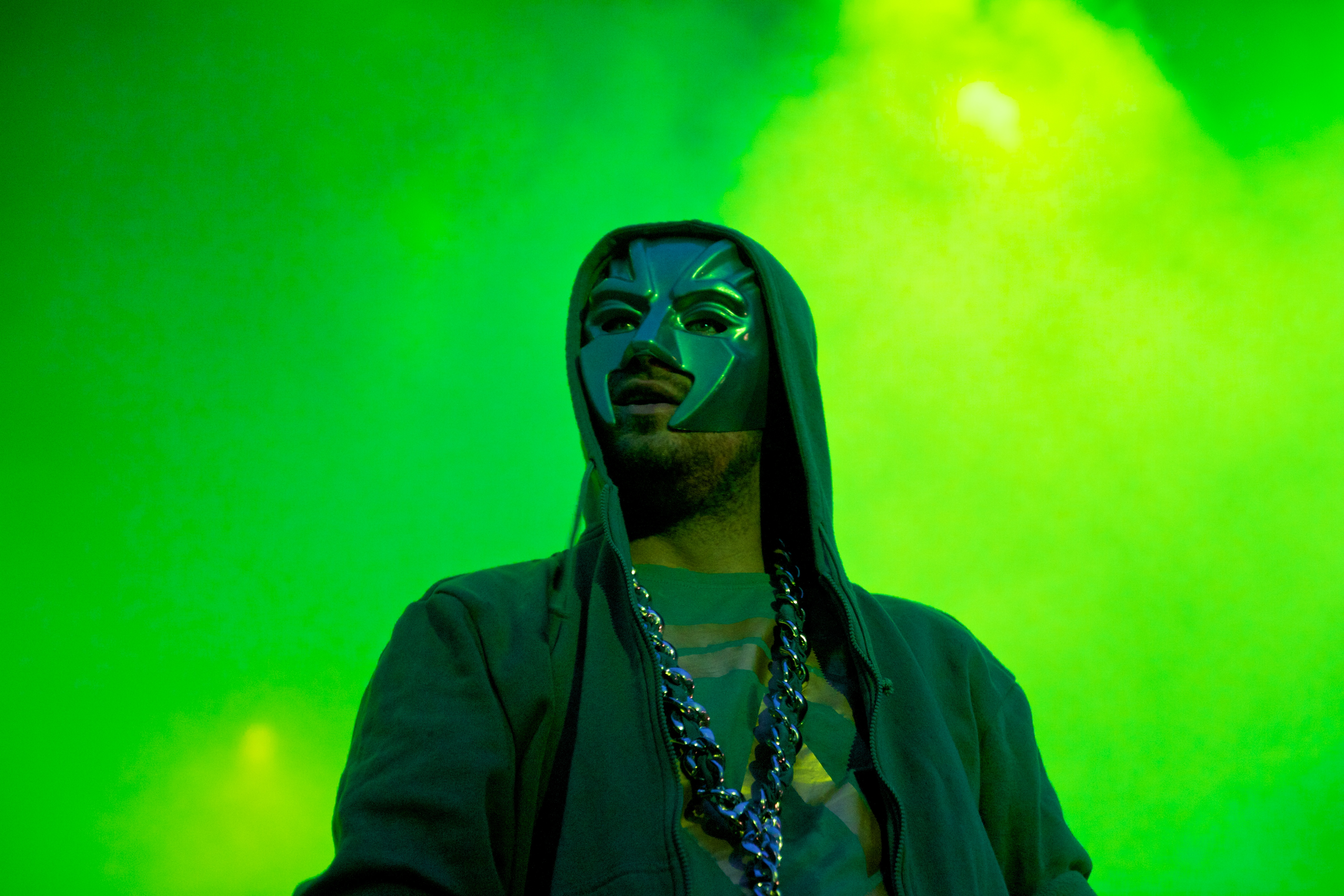 Marteria als Marsimoto beim splash! 2012